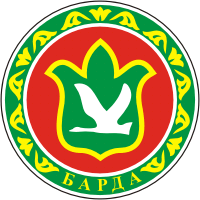 Barda (Perm oblast), emblem